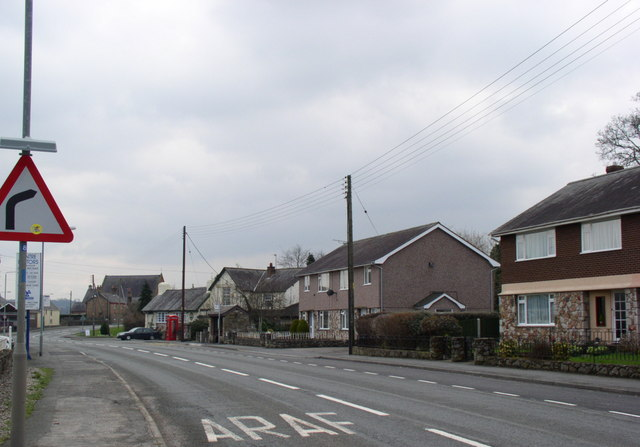 Pentre Llanrhaeadr. The village is on the A525 Ruthin to Denbigh road.